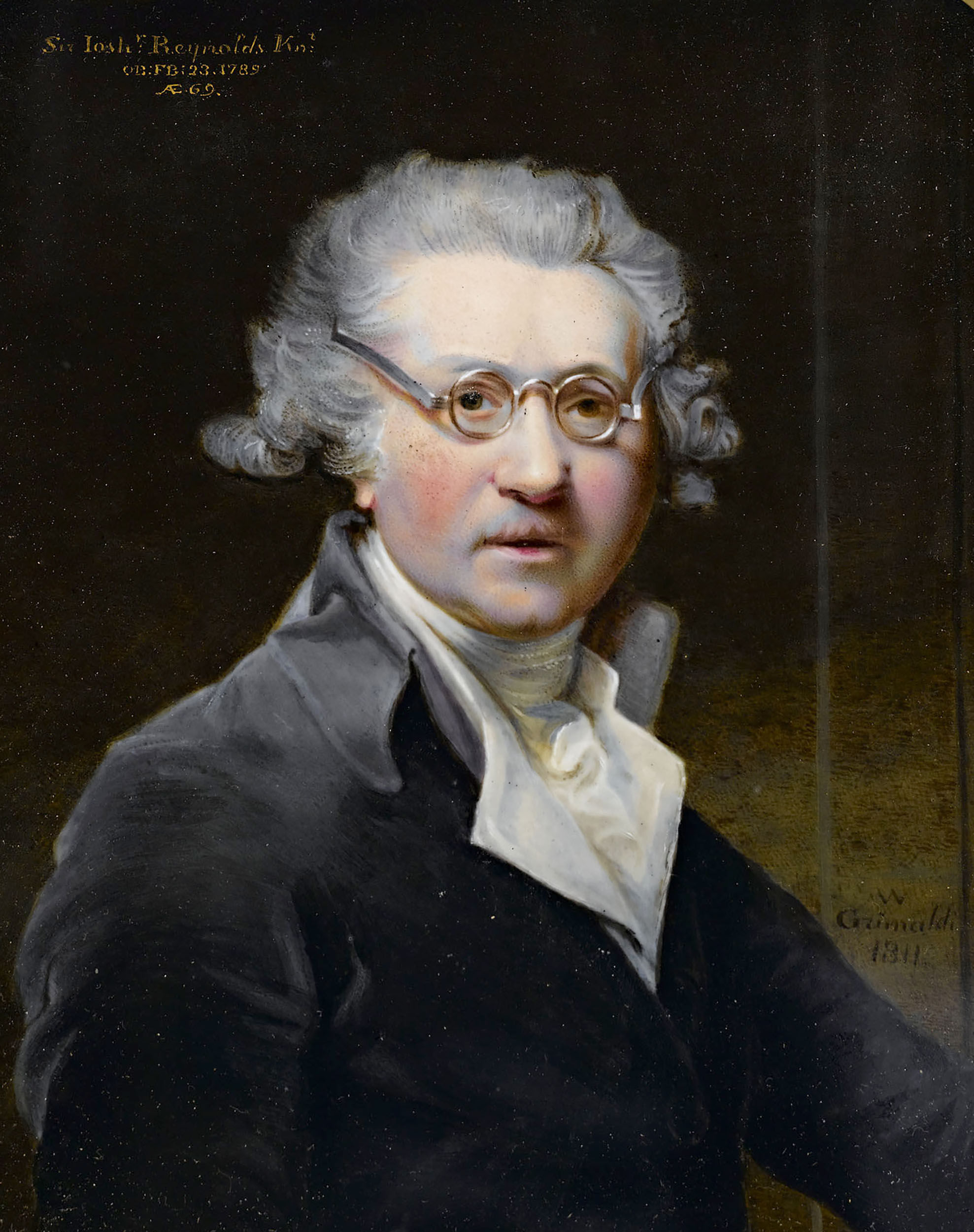 Enamel Miniature Portrait of Sir Joshua Reynolds by William Grimaldi. Dated 1811